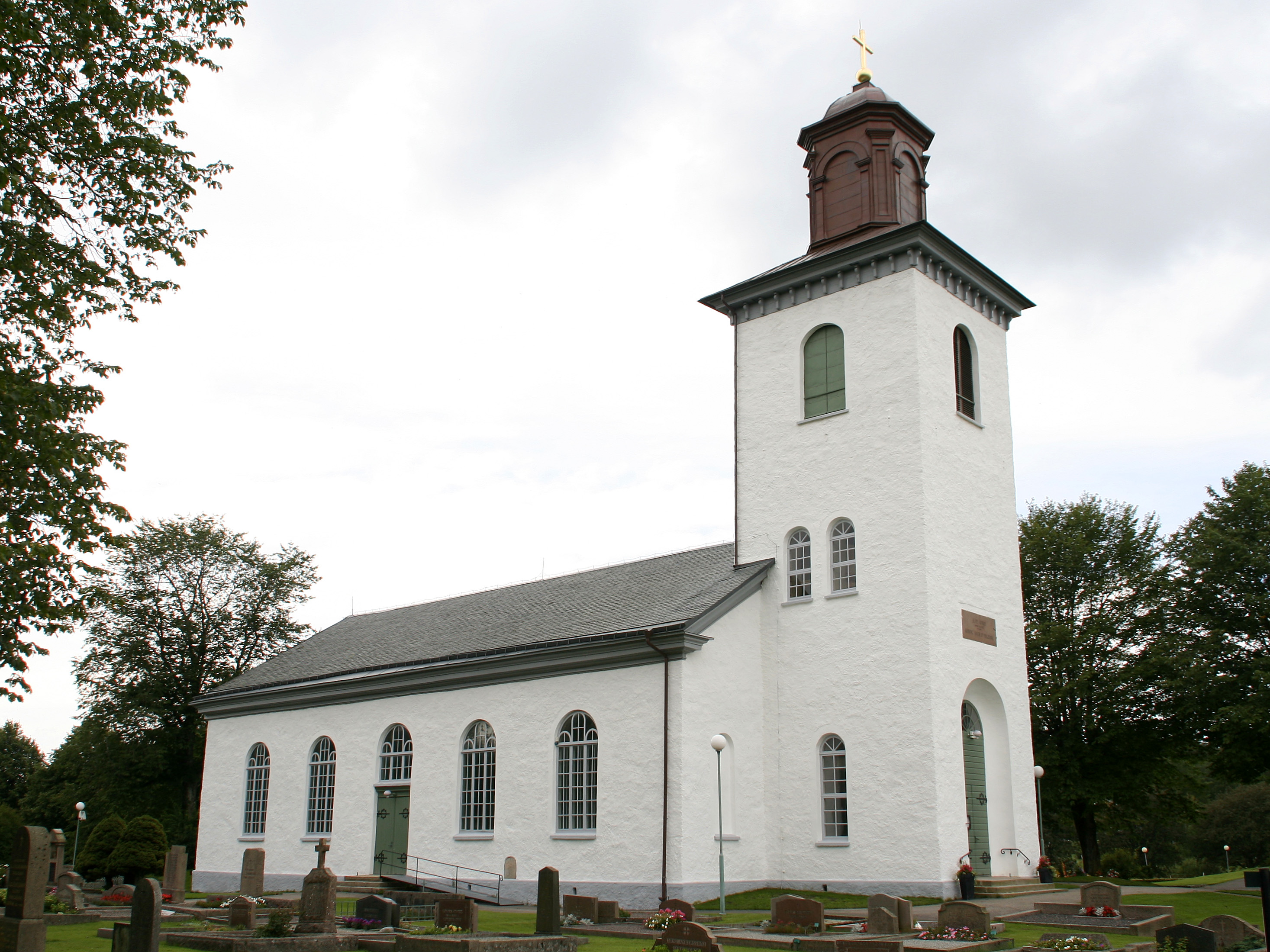 Släp Church